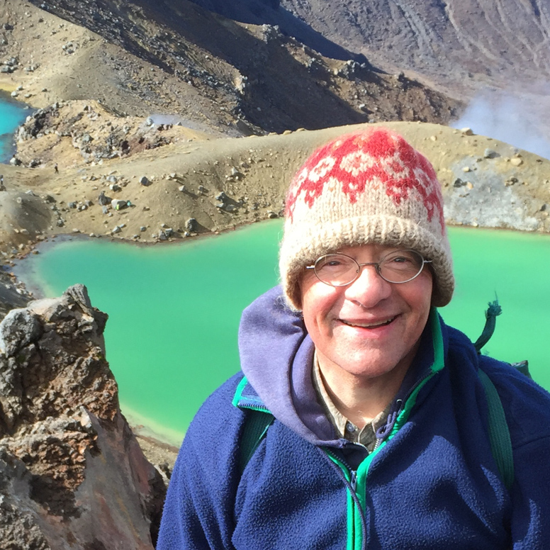 Portrait of Mark Ghiorso in Tongariro National Park, New Zealand.